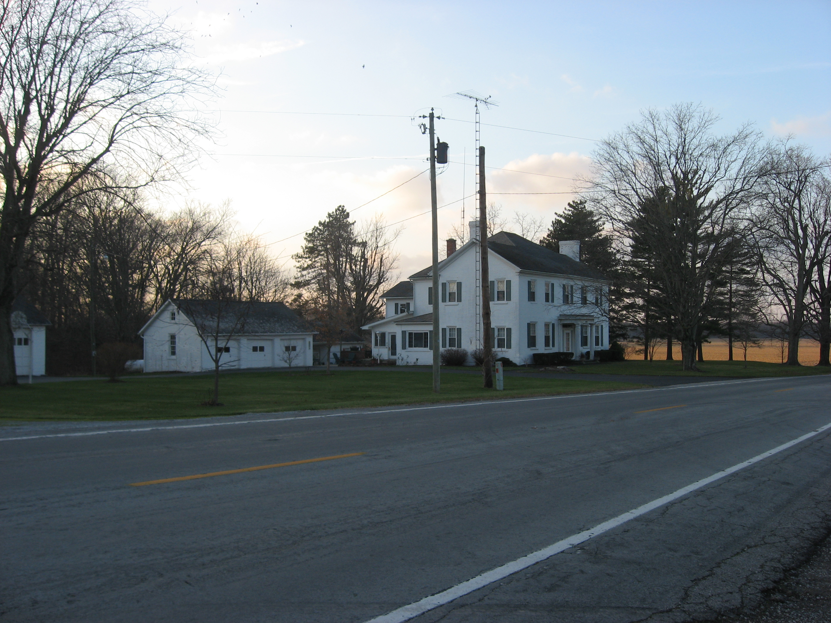 Farmhouse at the Armstrong Farm, located at 13706 State Route 199 southeast of the city of Upper Sandusky in Crane Township, Wyandot County, Ohio, United States. Built in 1830, the house and the rest of the farm are listed together on the National Register of Historic Places.